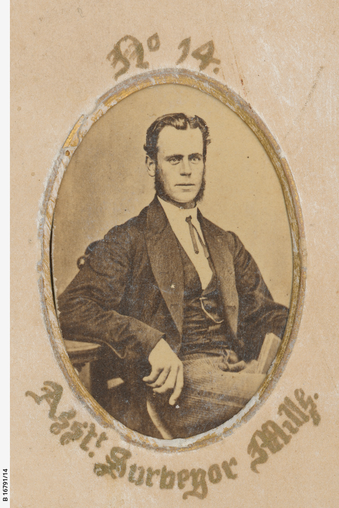 Portrait of W.W. Mills, an assistant surveyor on the Northern Territory Surveying Expedition. B 16791/14 One of 33 photographic portraits making up a composite of the officers of the South Australian Northern Territory Surveying Expedition, with space for all members on the expedition. Seven of the individual portraits are missing: no.18 (Accountant Lambell); no.19 (Draughtsman Hardy); no.23 (Cadet Greene); no.28 (Cadet Beetson); no.29 (Cadet Robert); no.31 (Cadet Dye); and no.33 (Young Holland).